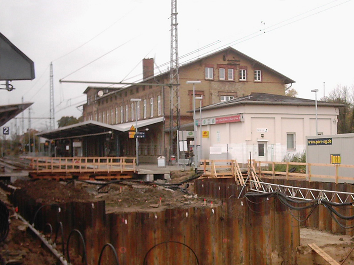 Greifswald Station Sept. 2011